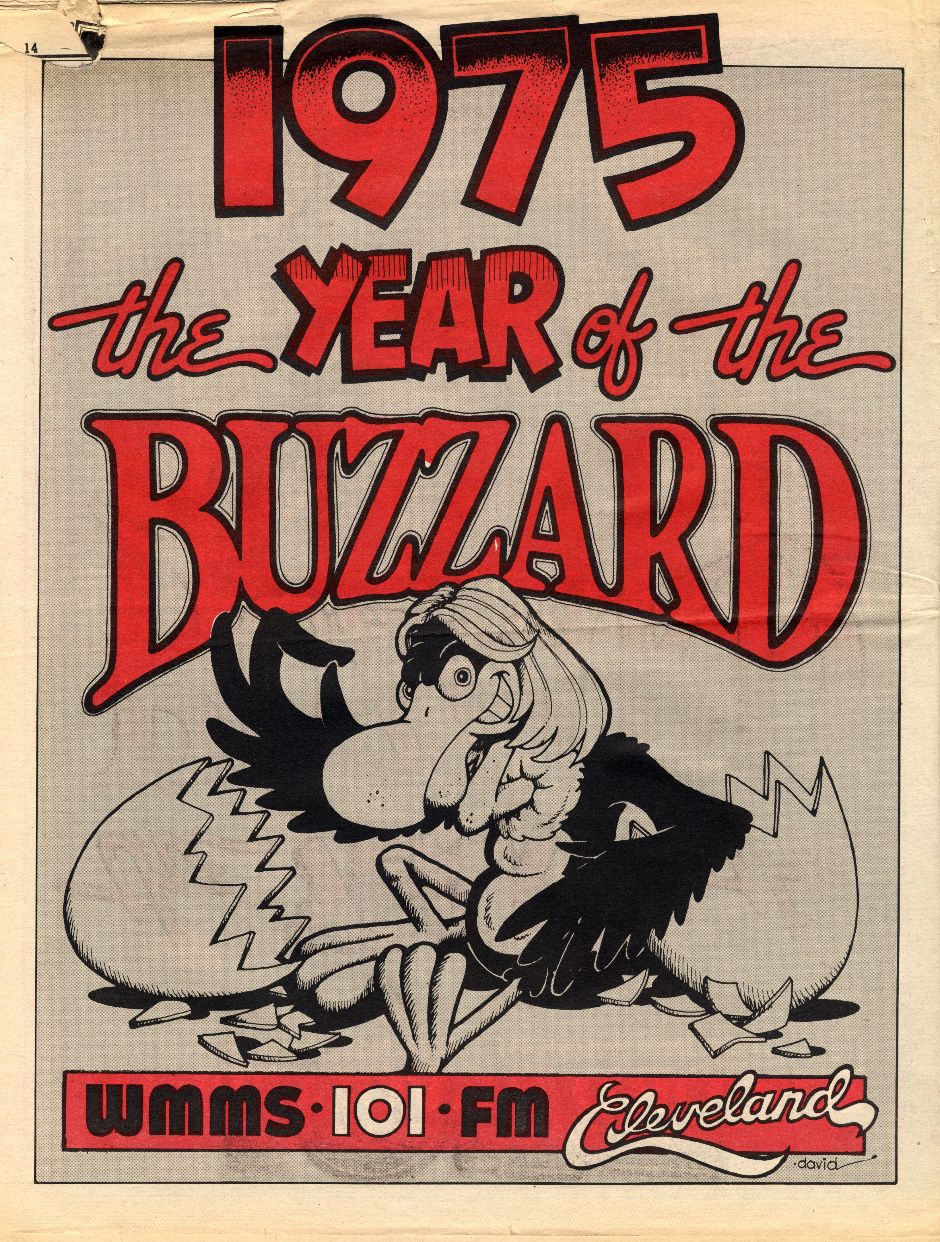 Print ad for radio station WMMS